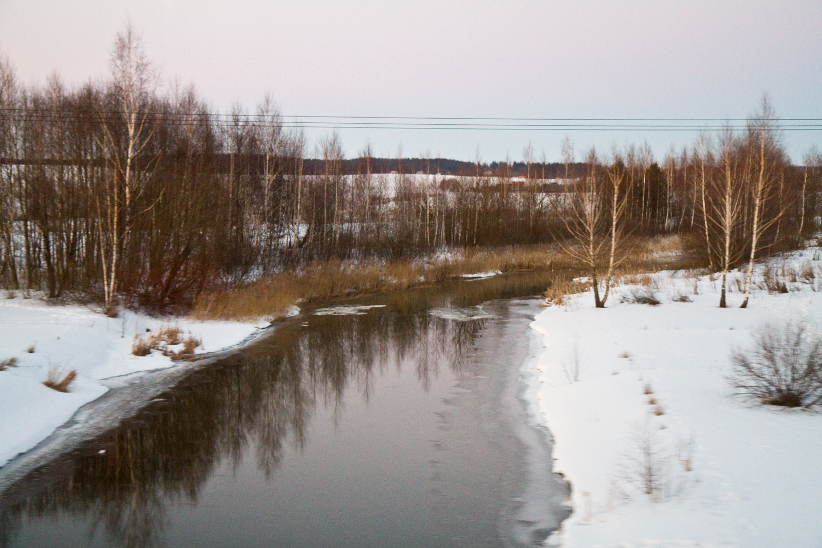 Main canal of Vialejka-Miensk water system. Maładečna district, Belarus.